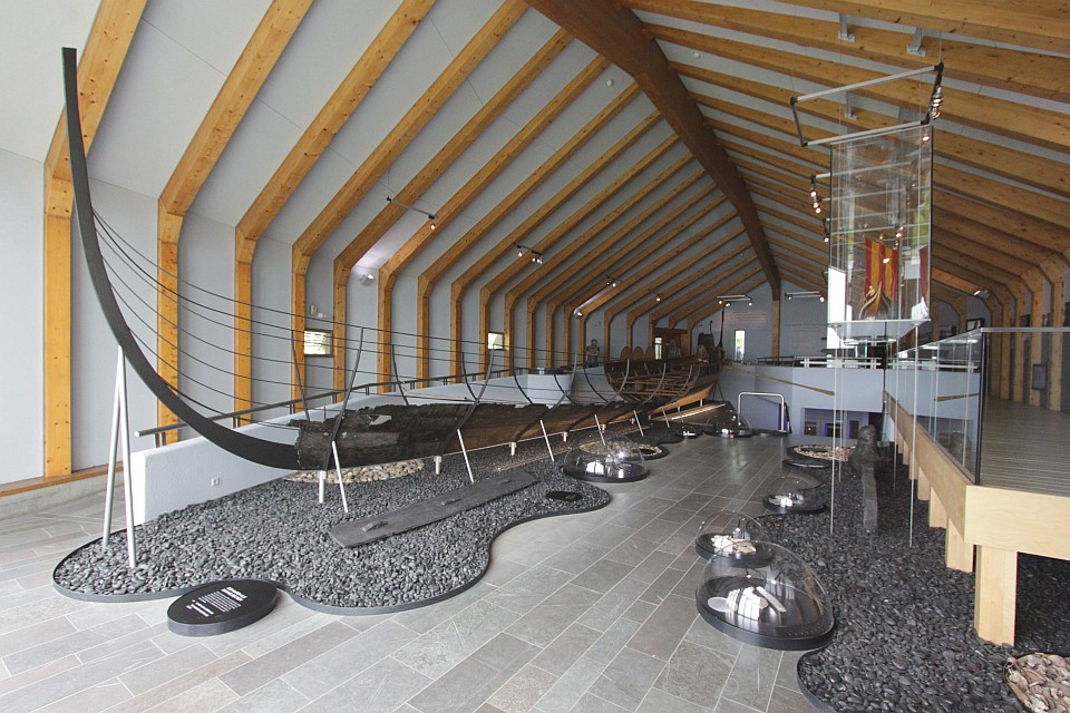 A royal longship in the ship hall. Viking Museum Hedeby.